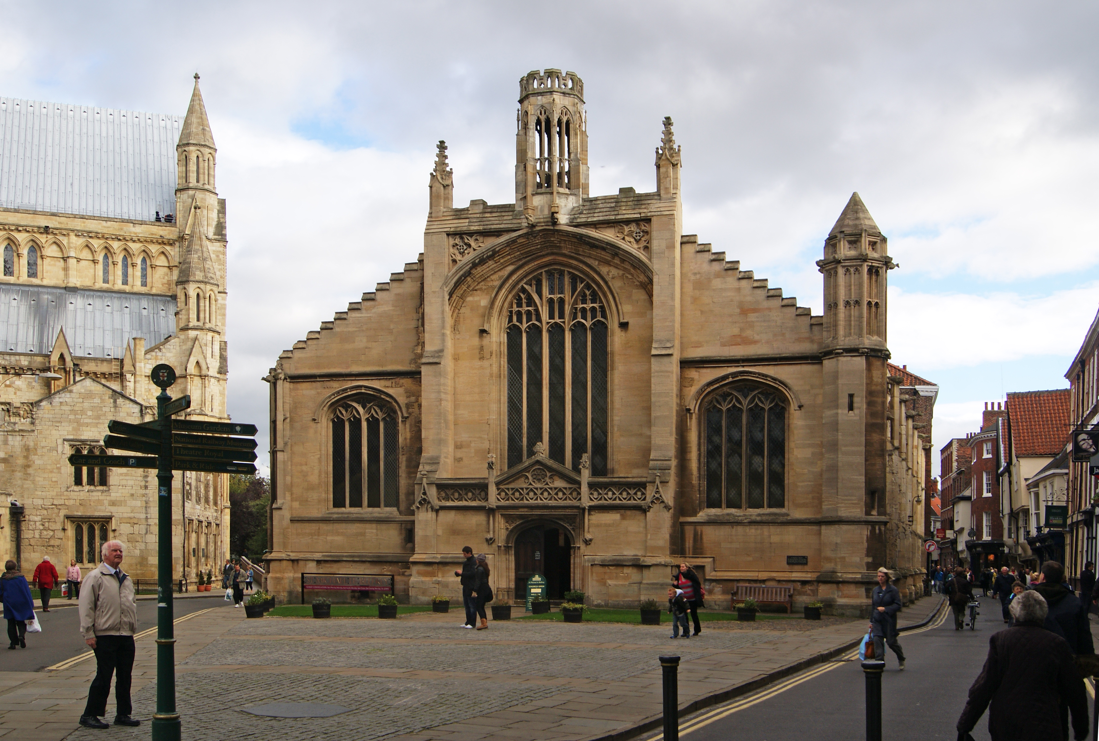 St Michael le Belfrey parish church, High Petergate, York, England, seen from the west